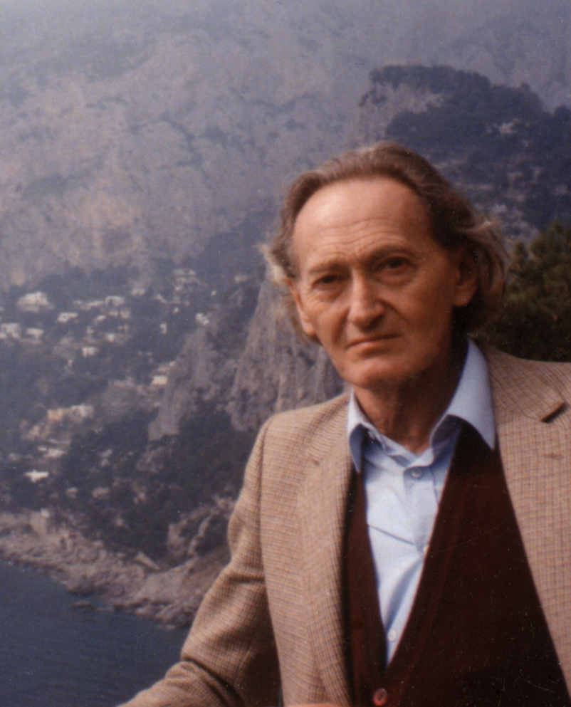 Tibor Klaniczay (1923-1992) historian of literature, member of the Hungarian Academy of Sciences (photo made in 1989 in Italy)